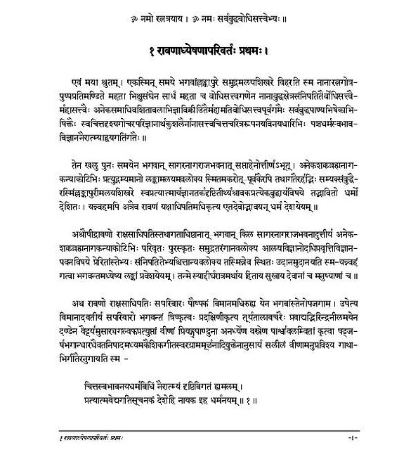 First page of the Lankavatara Sutra in Sanskrit.